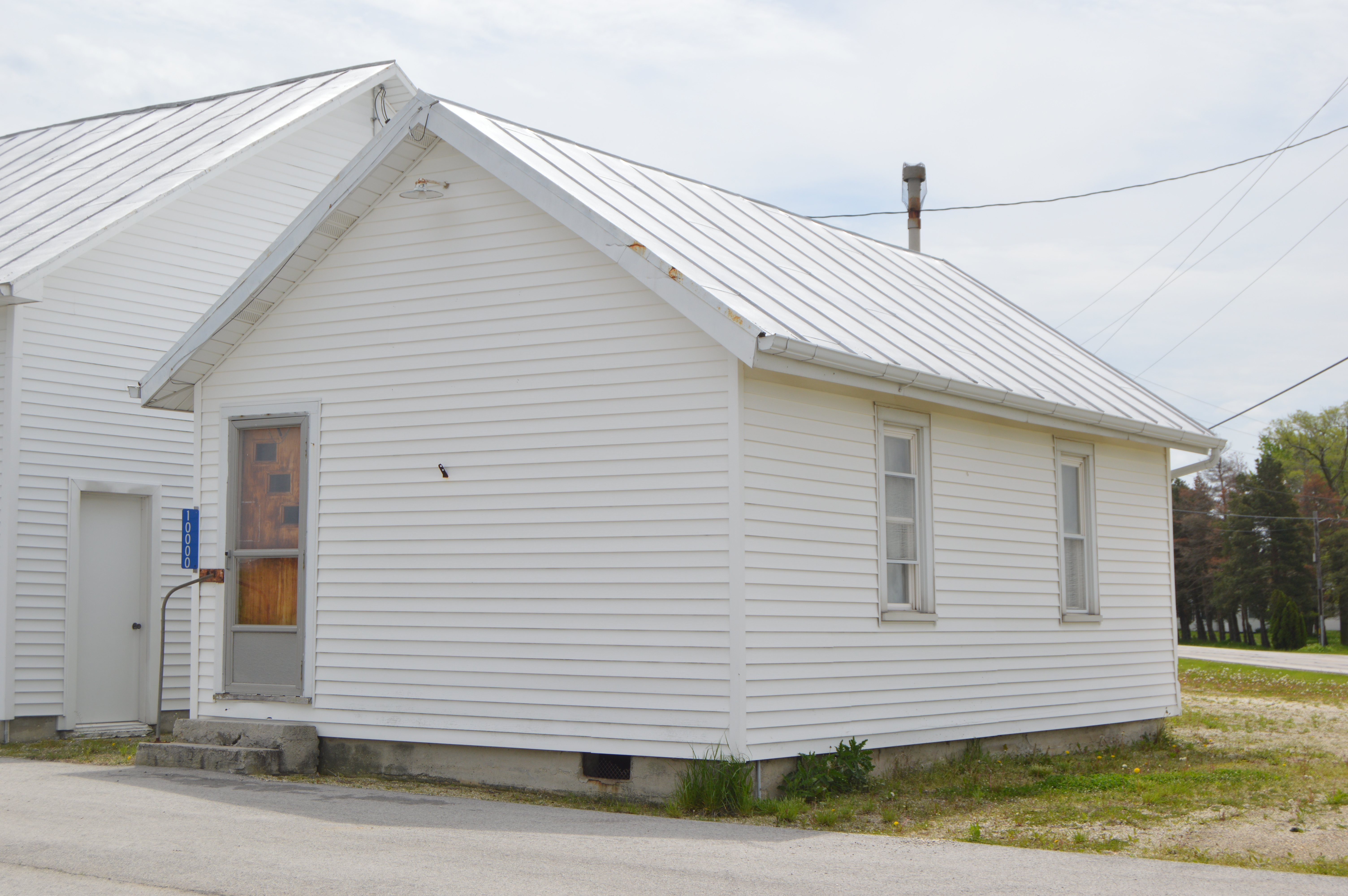 Front and western side of the Loudon Township hall, located along State Route 587 at 10000 Township Road 59 southeast of Fostoria in Loudon Township, Seneca County, Ohio, United States.